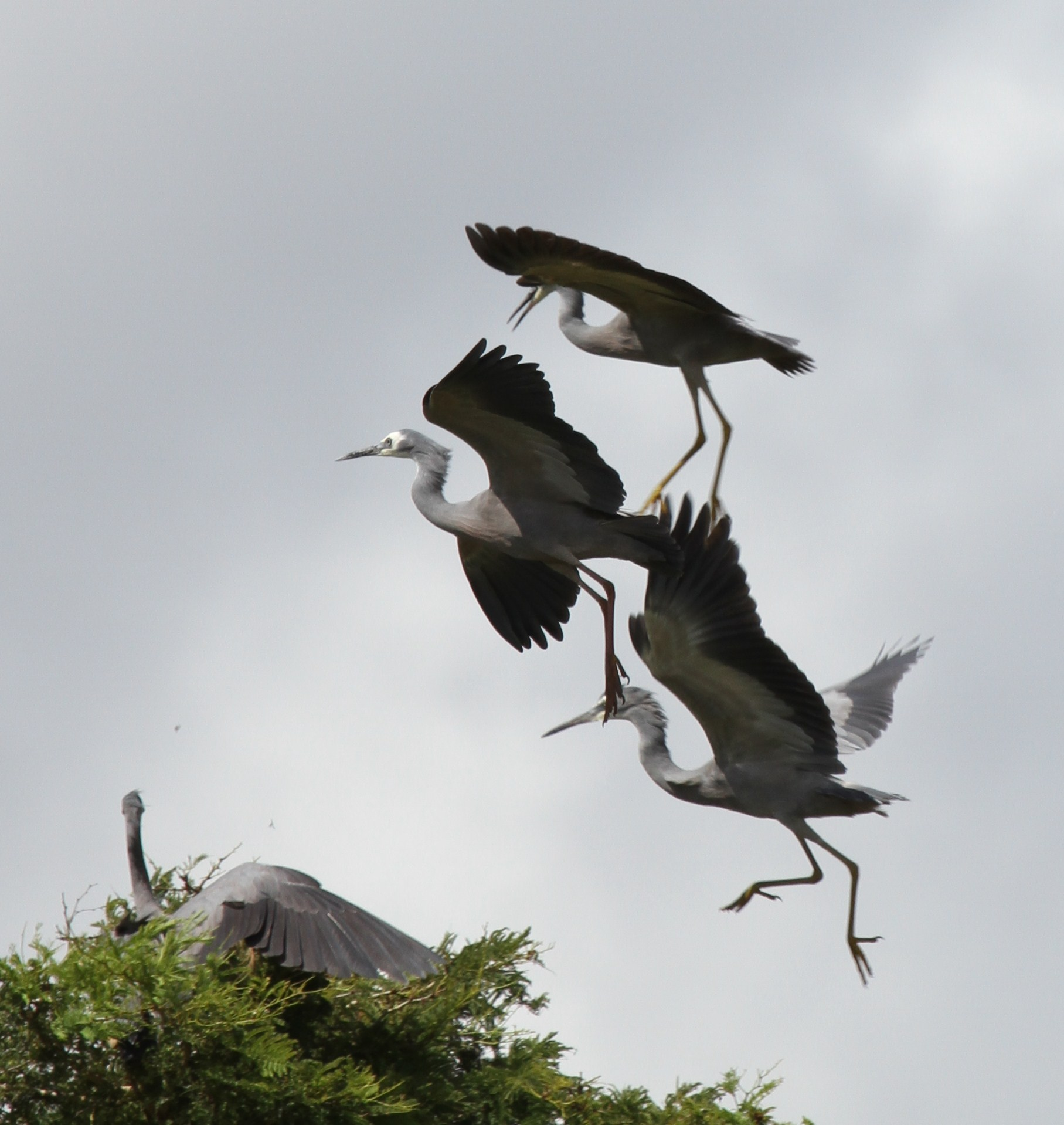 Prepare for landing, a group of White-faced Herons squabble as they approach a perch, an uncommon waterbird in East Timor